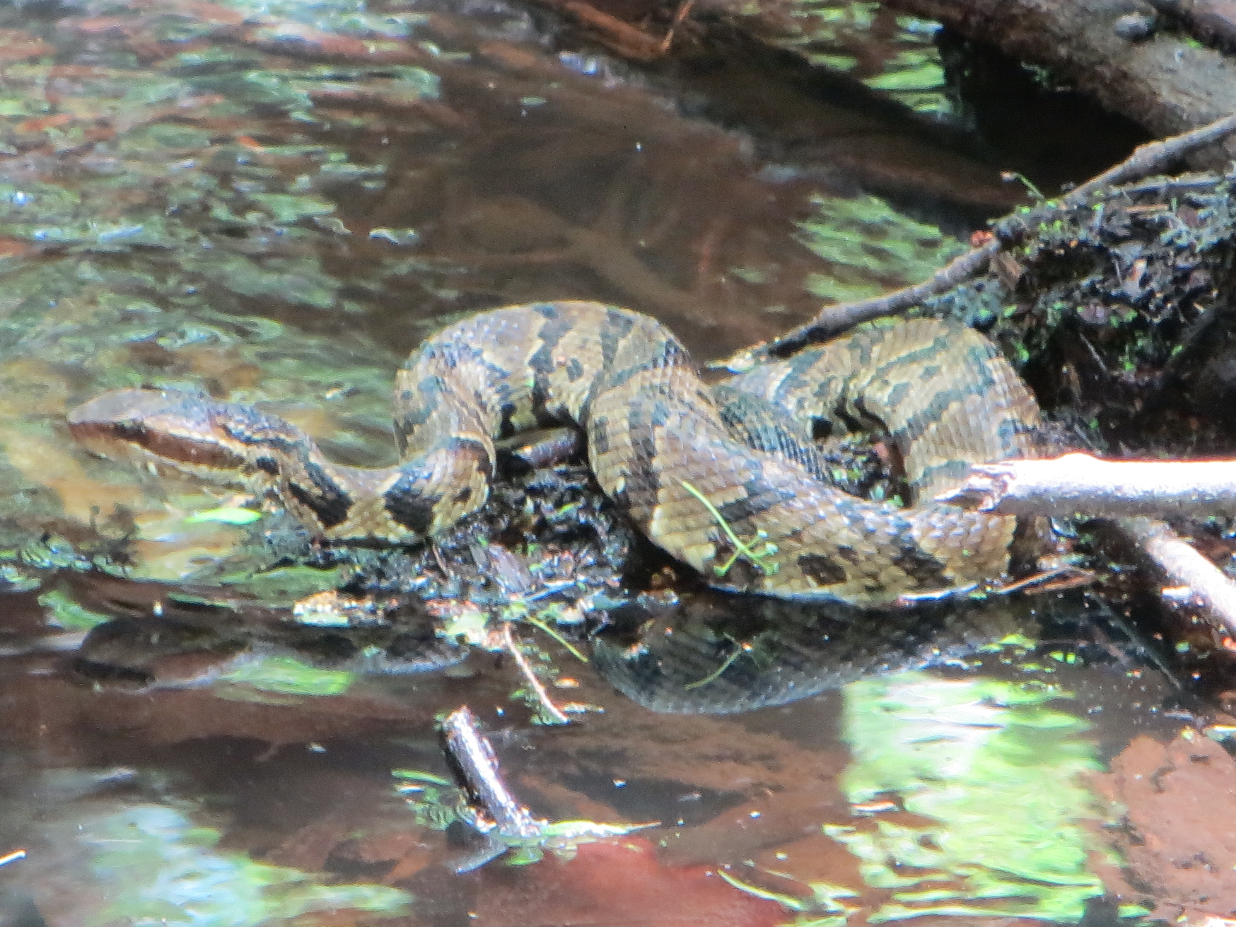 Agkistrodon piscivorus piscivorus, light form